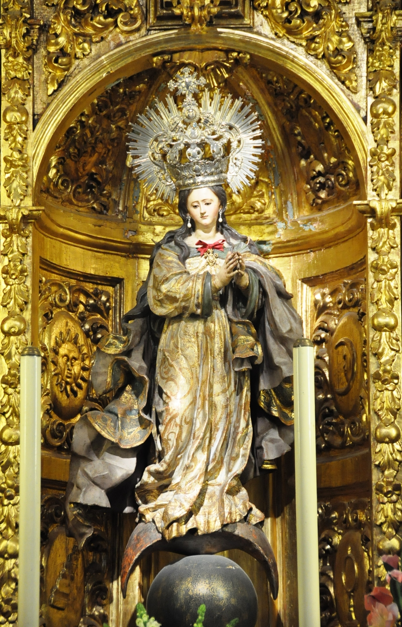 imagen de la inmaculada concepción